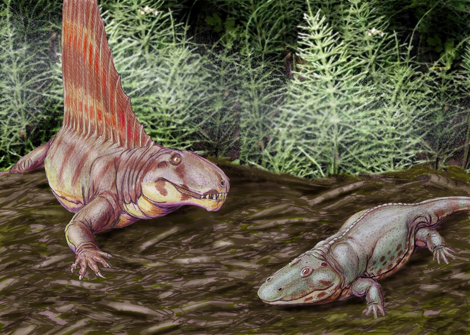 Dimetrodon gigas & Eryops megacephalus